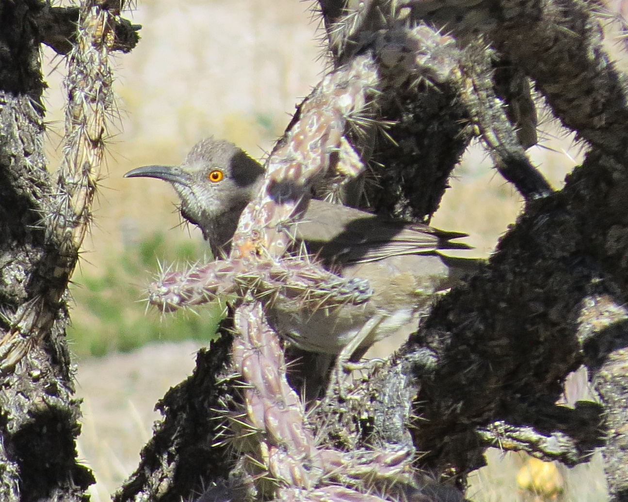 Curve-billed Thrasher, Toxostoma curvirostre, in Cane Cholla, Cylindropuntia imbricata, near U.S. 285 north of Los Luceros, New Mexico.